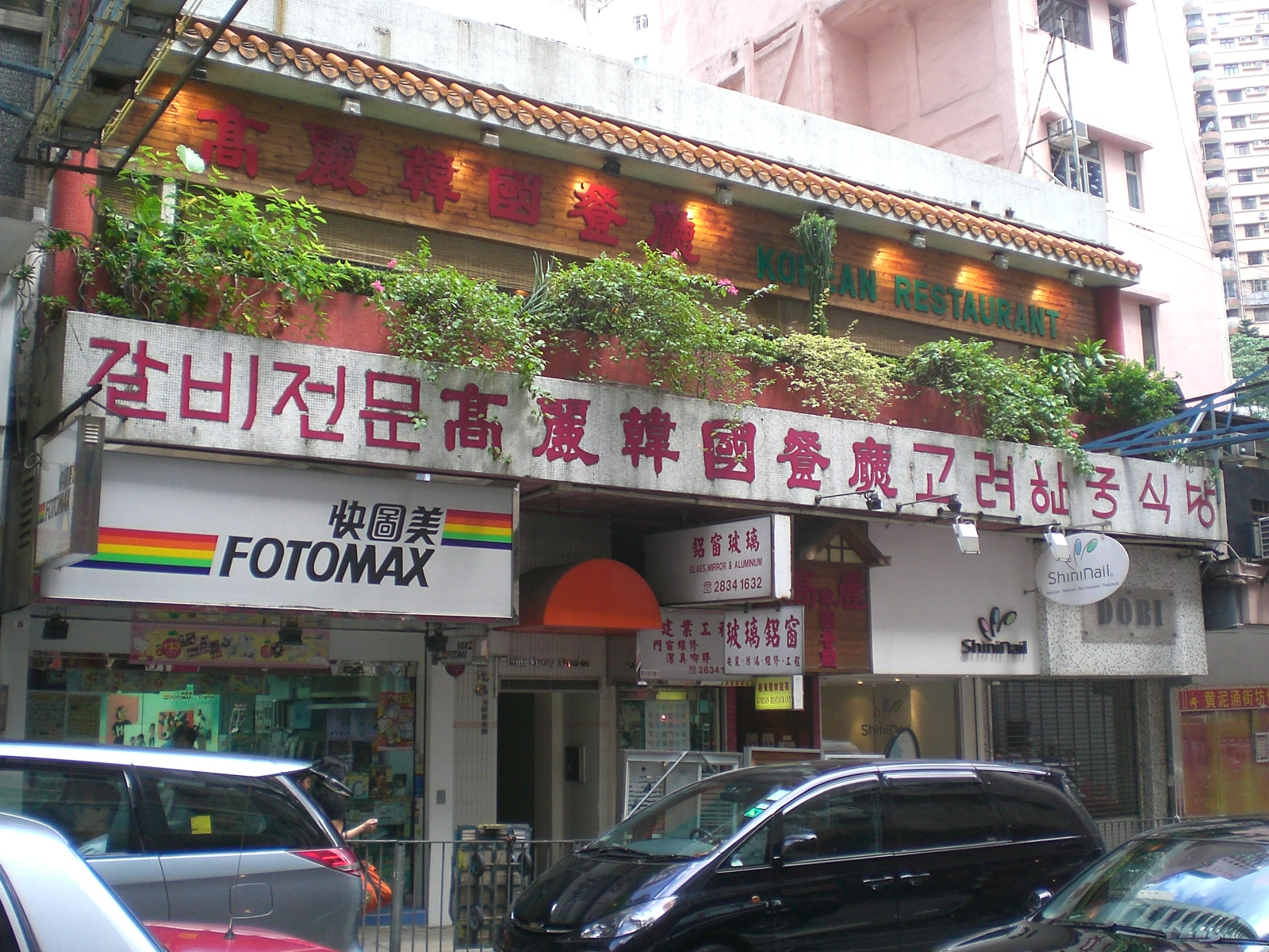 zh-yue:景光街, Korean restaurant, King Kwong Street, Happy Valley, Hong Kong